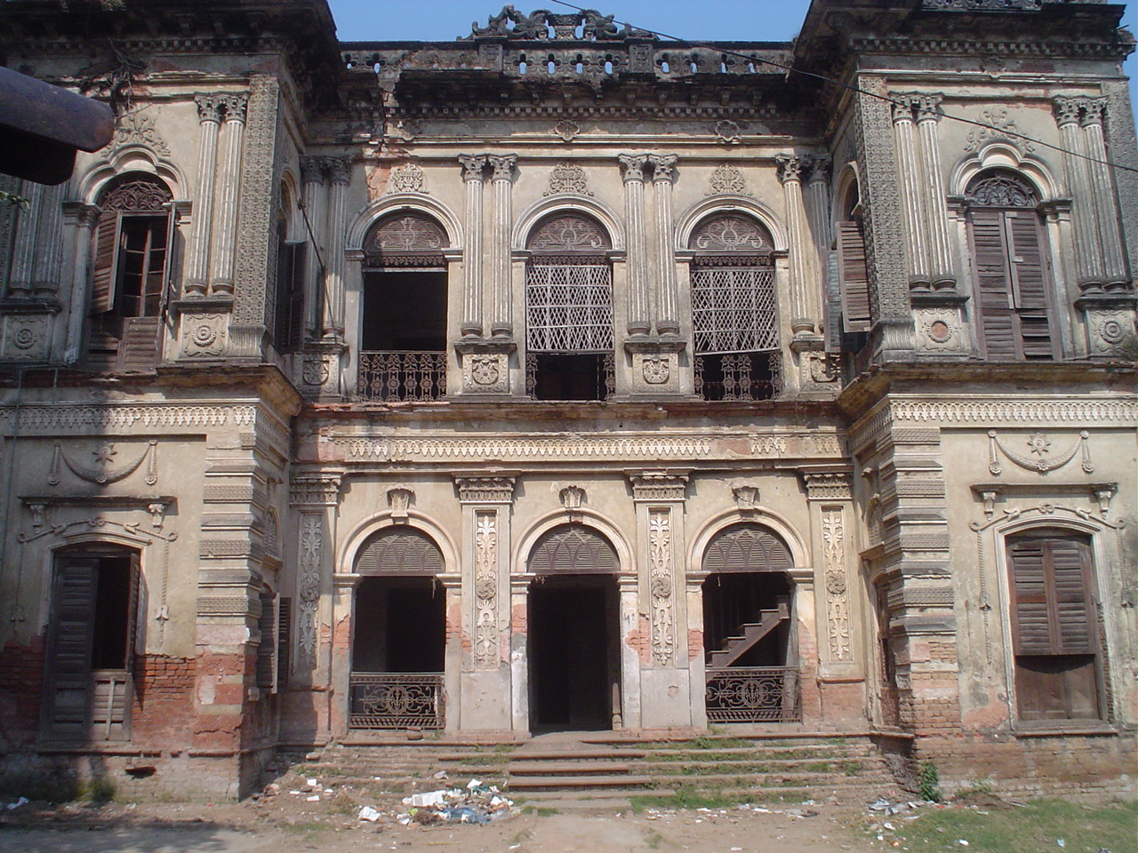 This house was called as MANIK Babur BARI. it was located in Hazaribagh, Dhaka. This house was being demolished later on.